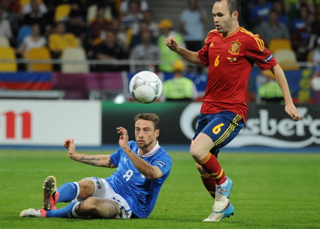 Andrés Iniesta and Claudio Marchisio at Euro 2012 final Spain-Italy